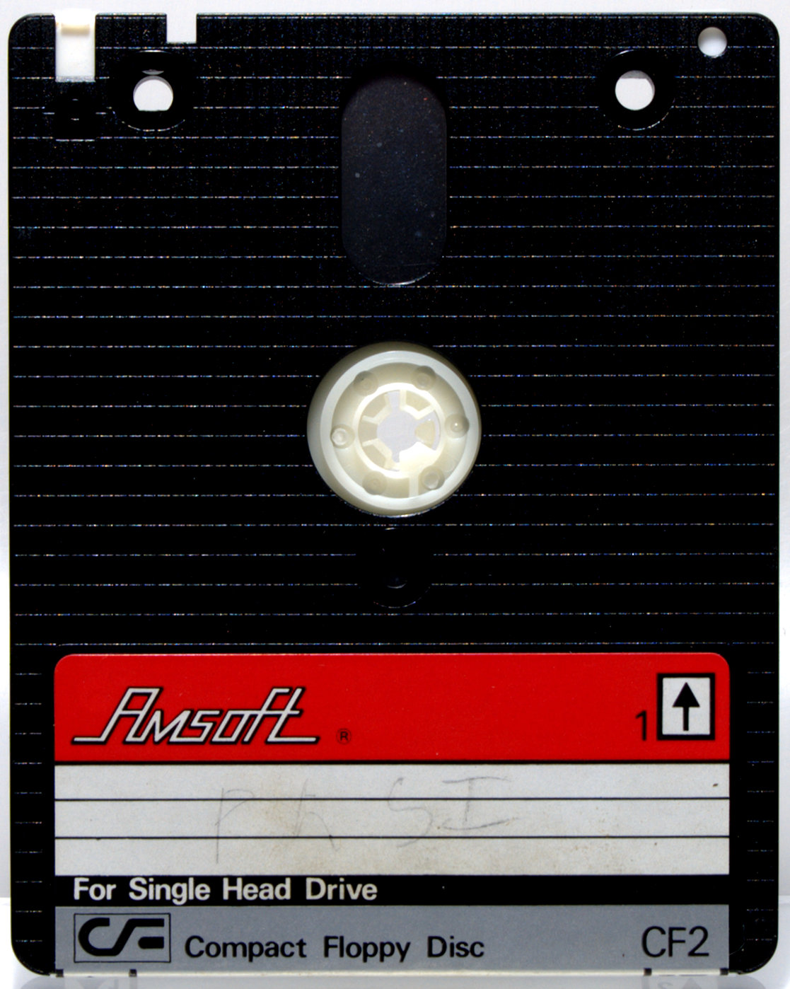 A 3-inch Compact Floppy Disk (Double-Sided), made by AMSoft, to be used with an Amstrad CPC type Computer (c. 1990)